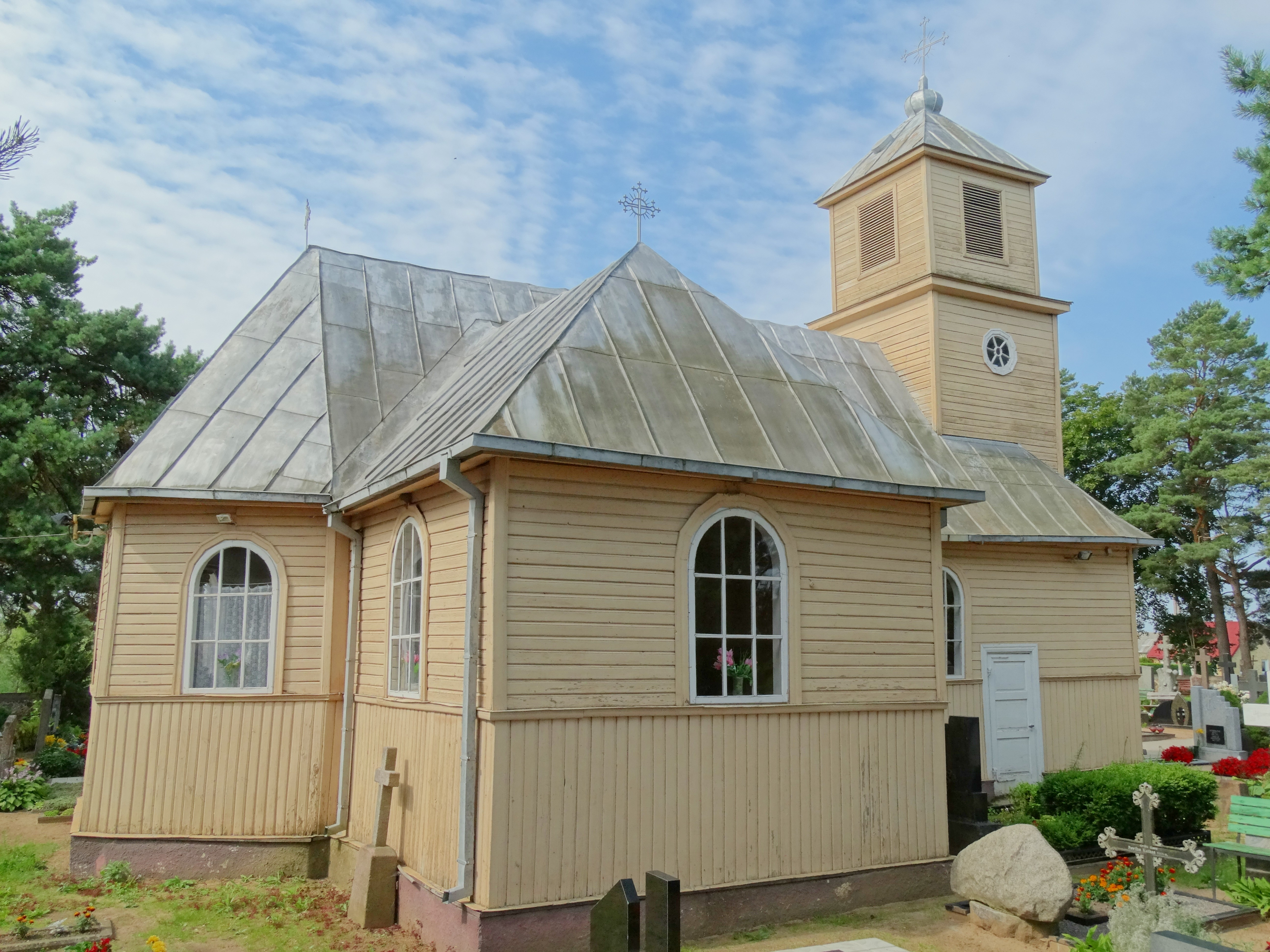 Chapel in Pošupės, Joniškis District, Lithuania